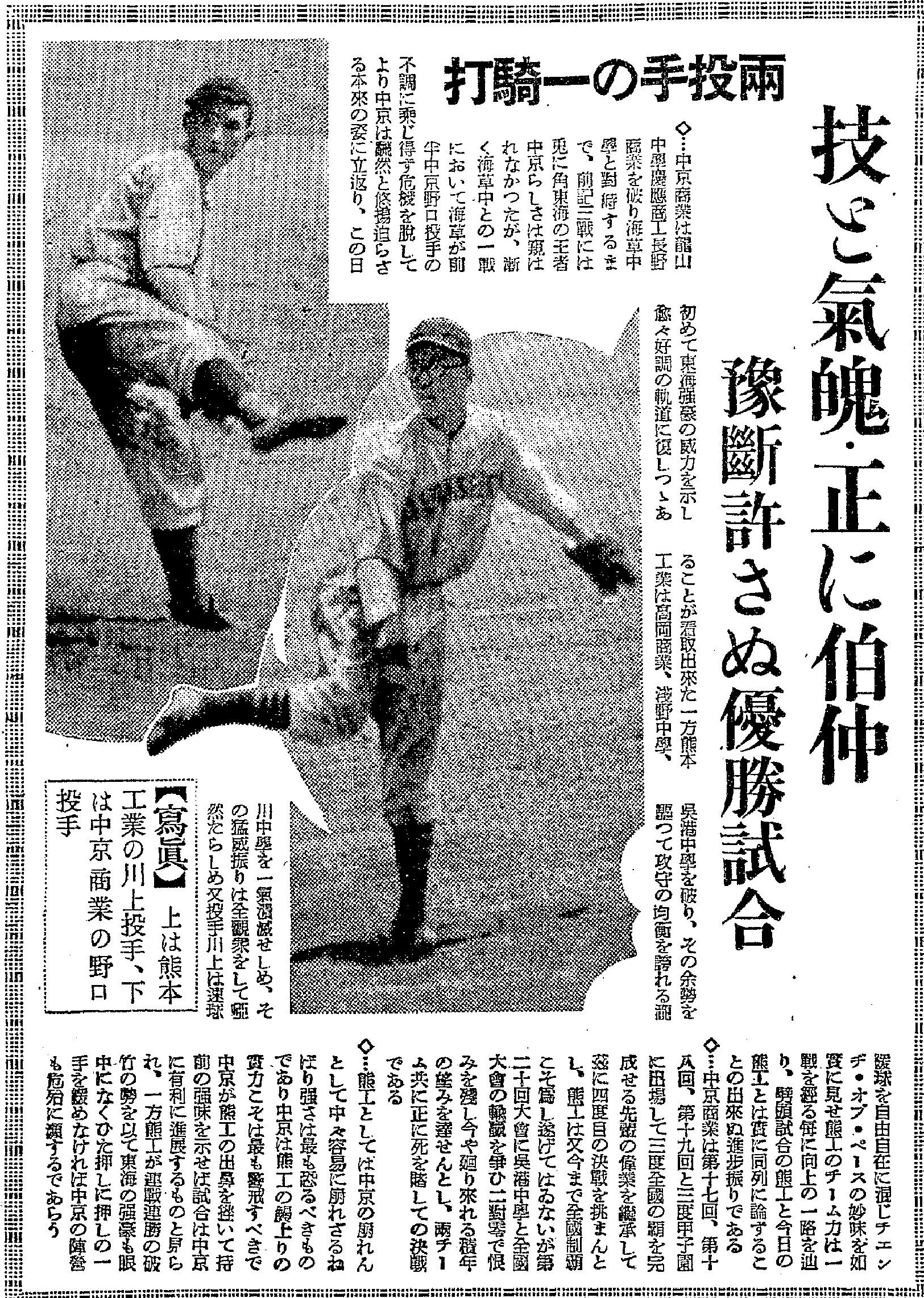 Tetsuharu Kawakami 1937